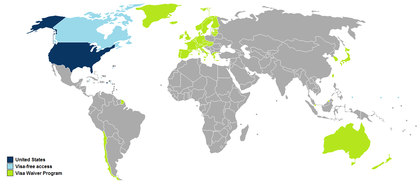 map showing visa situation to USA